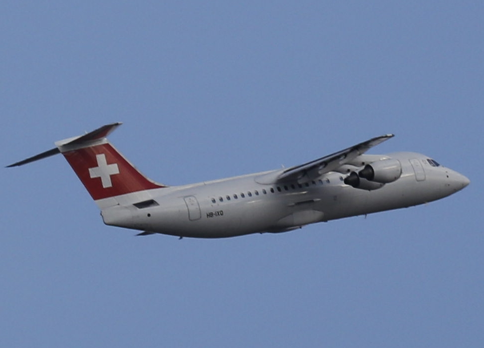 Avro RJ100 Swissair